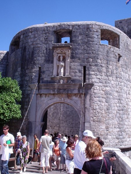 Gates of Pile, Dubrovnik, Croatia